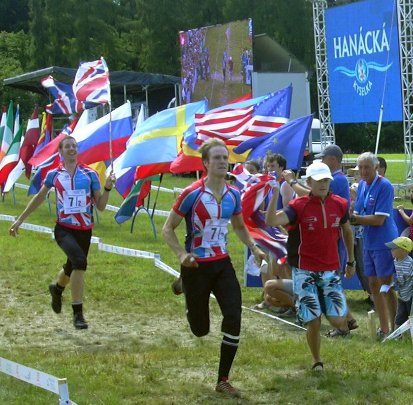 World Orienteering Championships 2008 in Olomouc, Czech Republic. On photo Gold Relay United Kingdom.